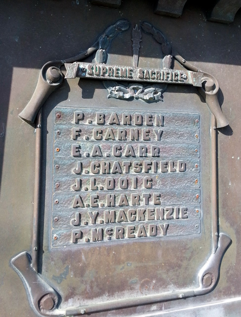 Detail image of the Pinkenba War Memorial